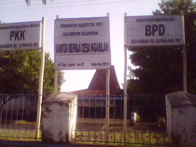 Desa Ngablak